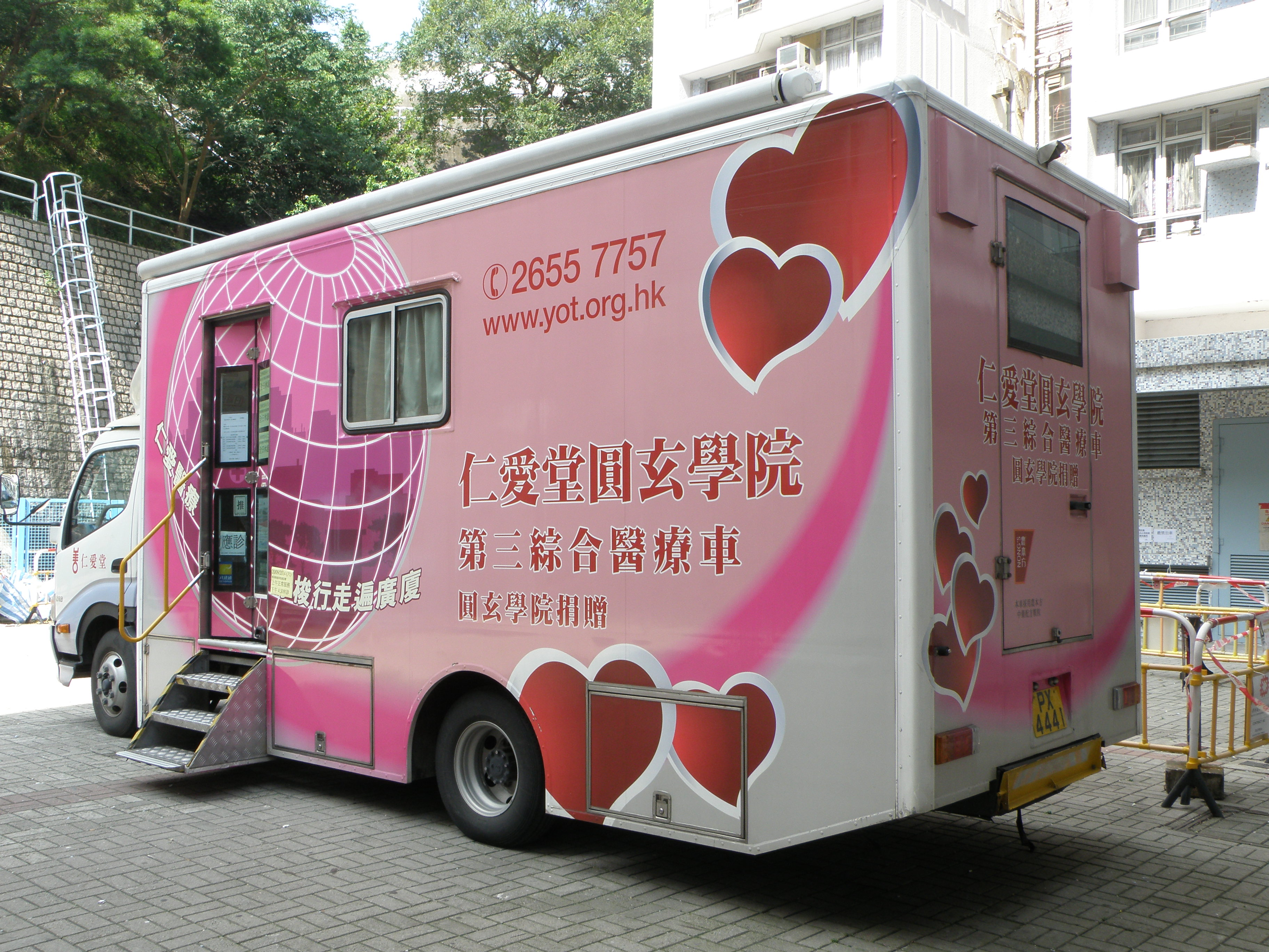 Hong Kong Yan Oi Tong Yuen Yuen Institute no. 3 integrated medical treatment car.